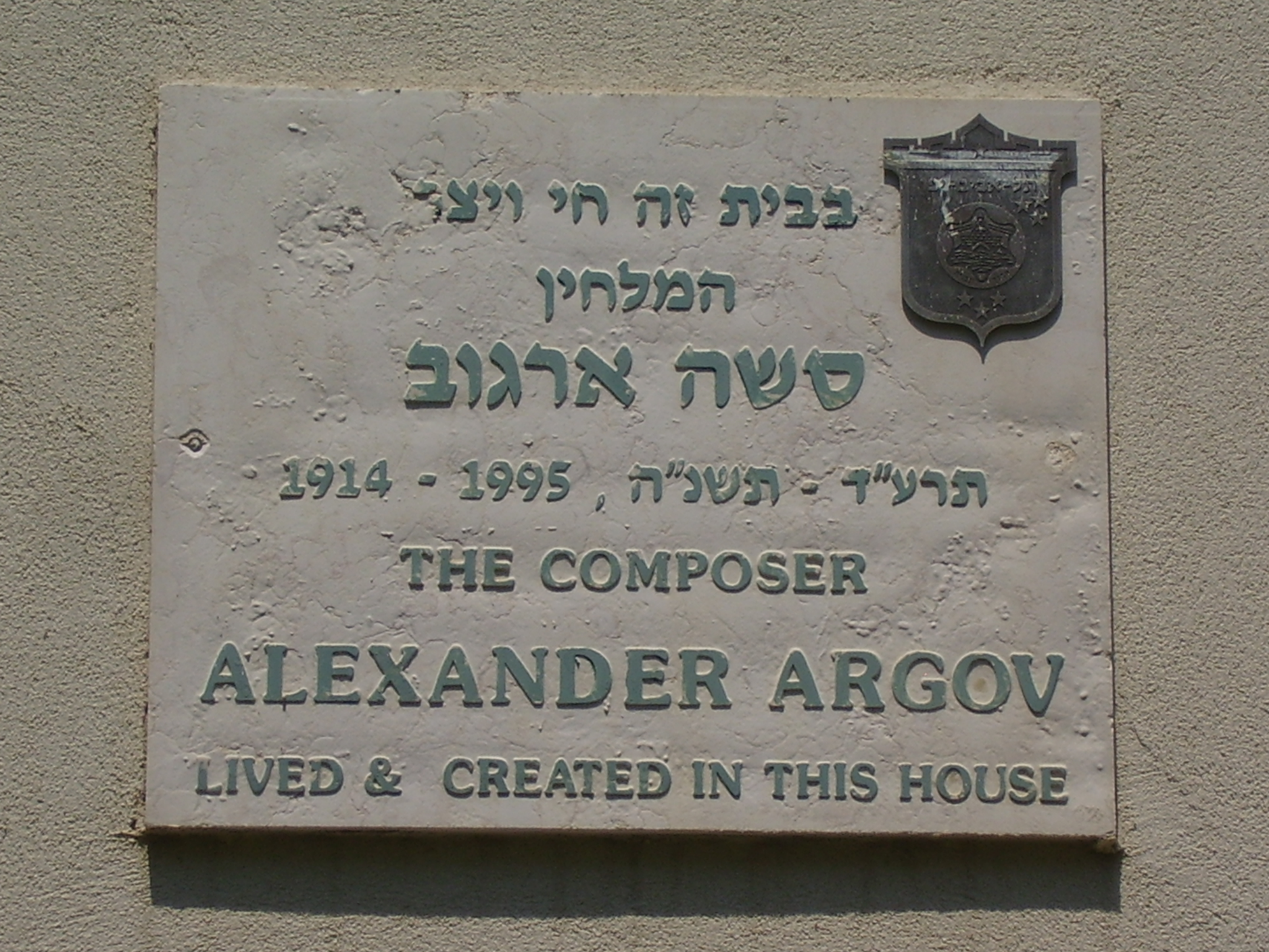 memorial plaque on the composer alexander argov house in tel aviv לוחית זיכרון על ביתו של המלחין אלכסנדר (סשה) ארגוב ברח' סירקין 35 בתל אביב